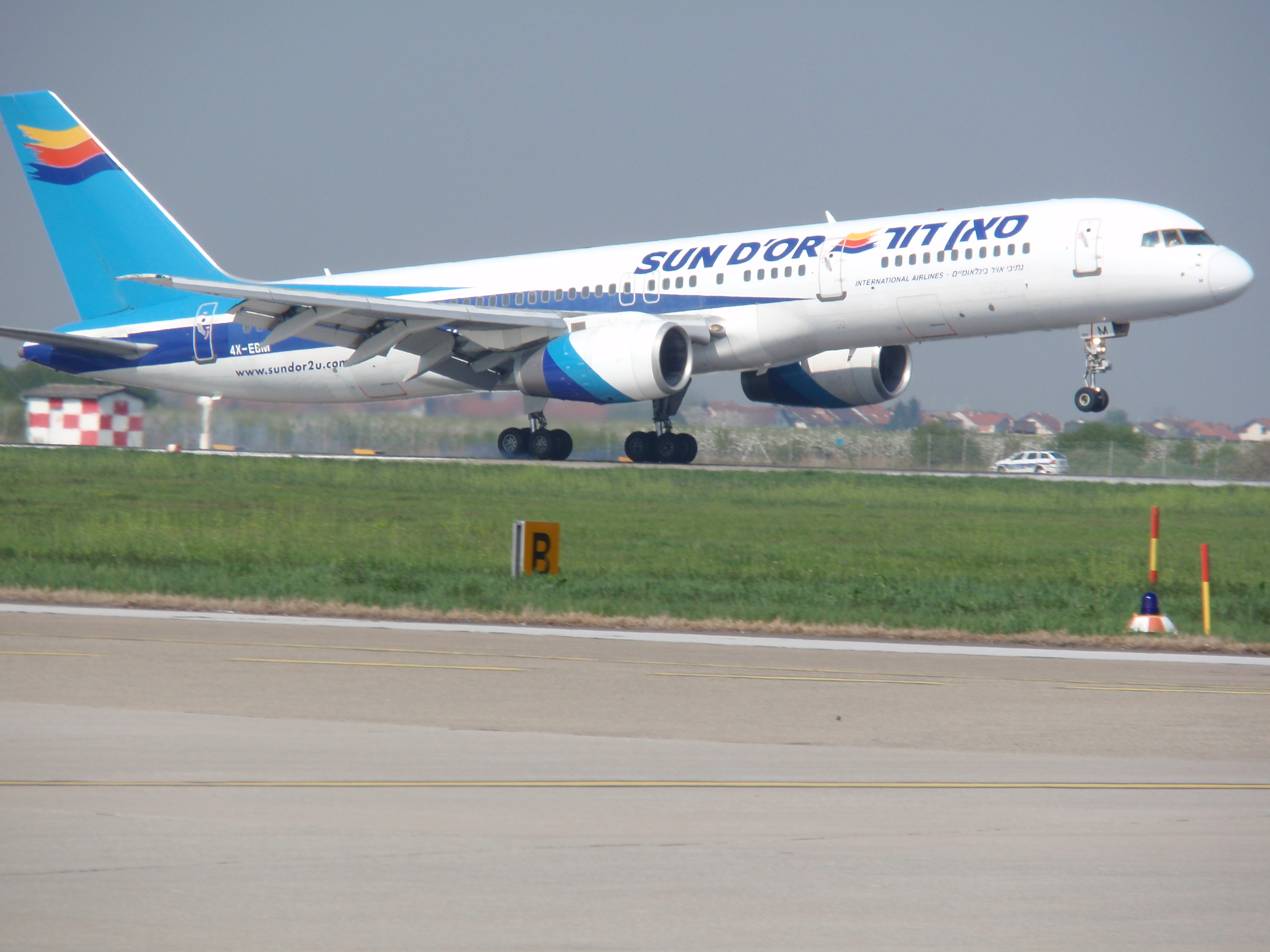 Sun d`Or International Airlines Boeing 757-258 (4x-EBM) landing on Zagreb airport